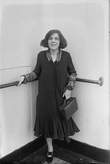 Ethel Leginska (1886–1970), English composer